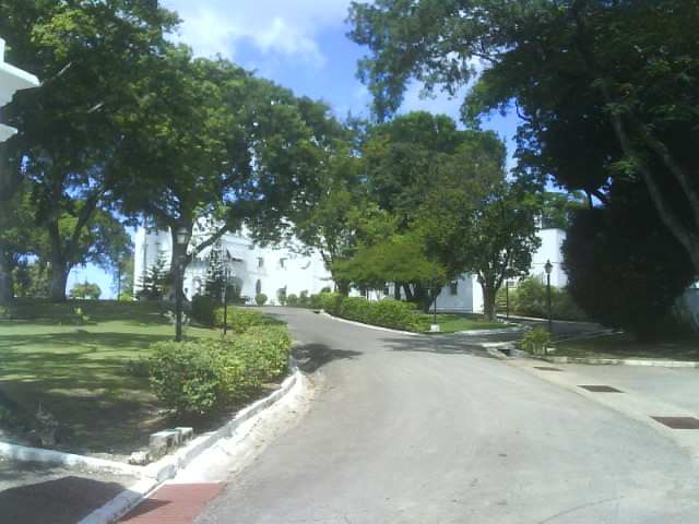 A casual view of Government House, Barbados from the public sidewalk. It is the Office and Official residence of the Vice-Royal of Barbados. (NOTE: This is the closest legal point to take a photo from.)